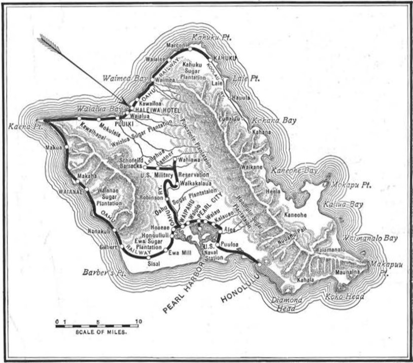 The Mid Pacific Magazine - Conductd by Alexander Hume Ford, Vol. XVI., No. 4., page 26 in advertisement section "The Oahu Railway practically encircles the Island of Oahu. There are daily trains to Haleiwa—"the House Beautiful" (see arrow), and through the most extensive pineapple fields in the world, at Wahiawa."